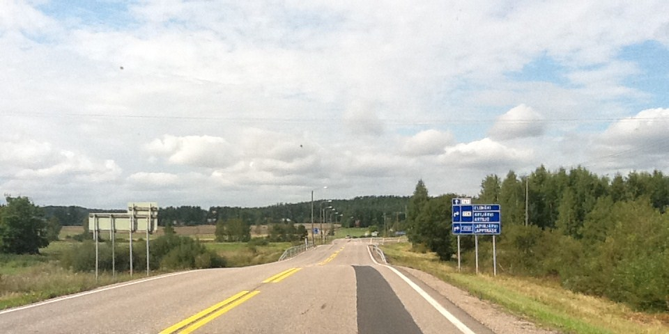 Finnish regional road 167 in Myrskylä, Uusimaa near the junction of regional road 174.